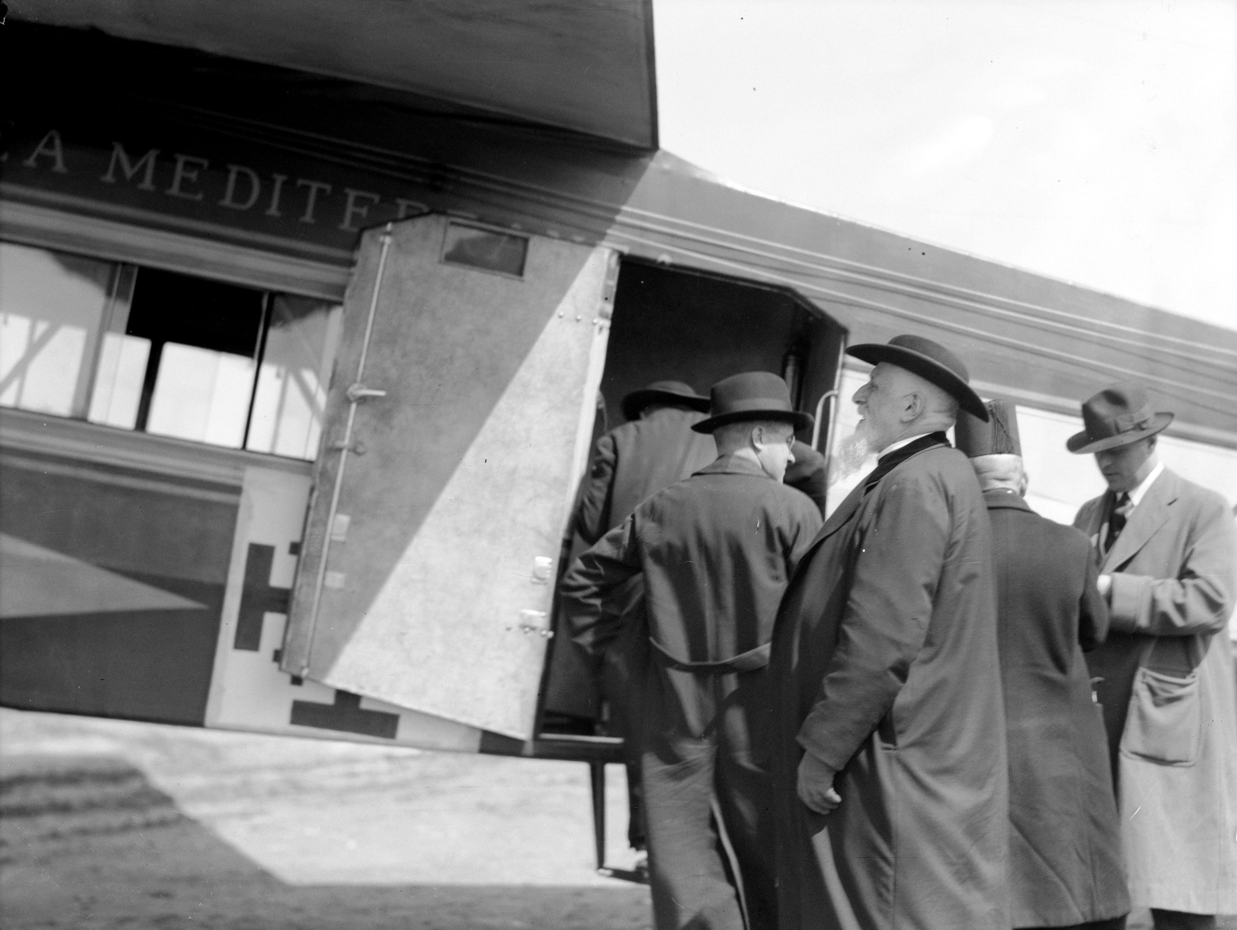 Centennial Easter celebrations. Holy Year. Vatican representative from Rome arriving at Ramleh. The papal plane landing on April 2nd, 1933.